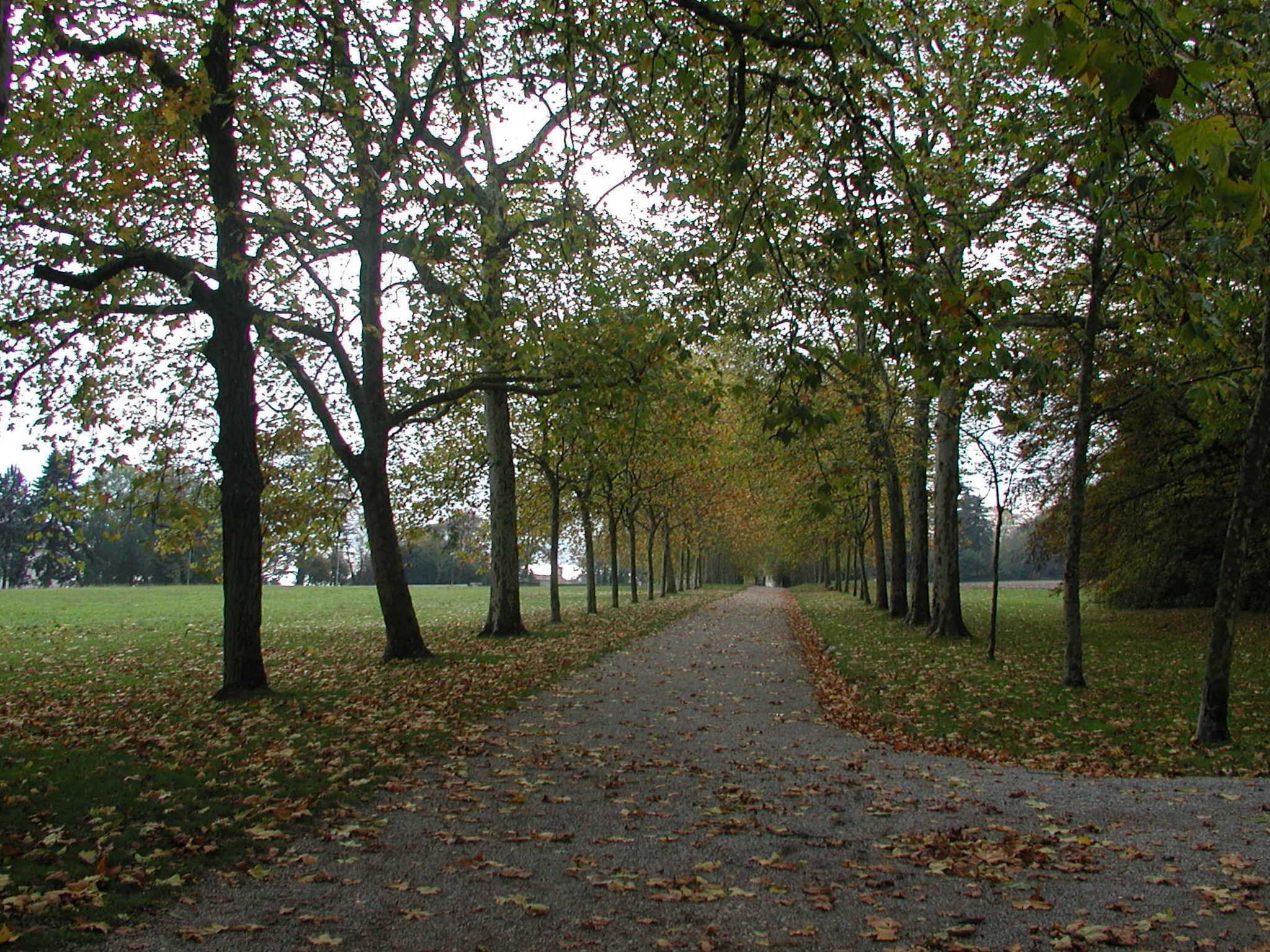 Path in the park of the castle of Coppet in the Swiss village Coppet located in the canton of Vaud on the lake of Geneva